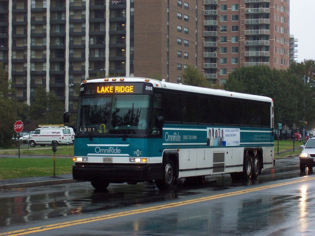 PRTC OmniRide MCI in Arlington, Virginia, taken by uploader, Adam Moreira (AEMoreira042281), October 27, 2006. MCI D4500 306 = 2002